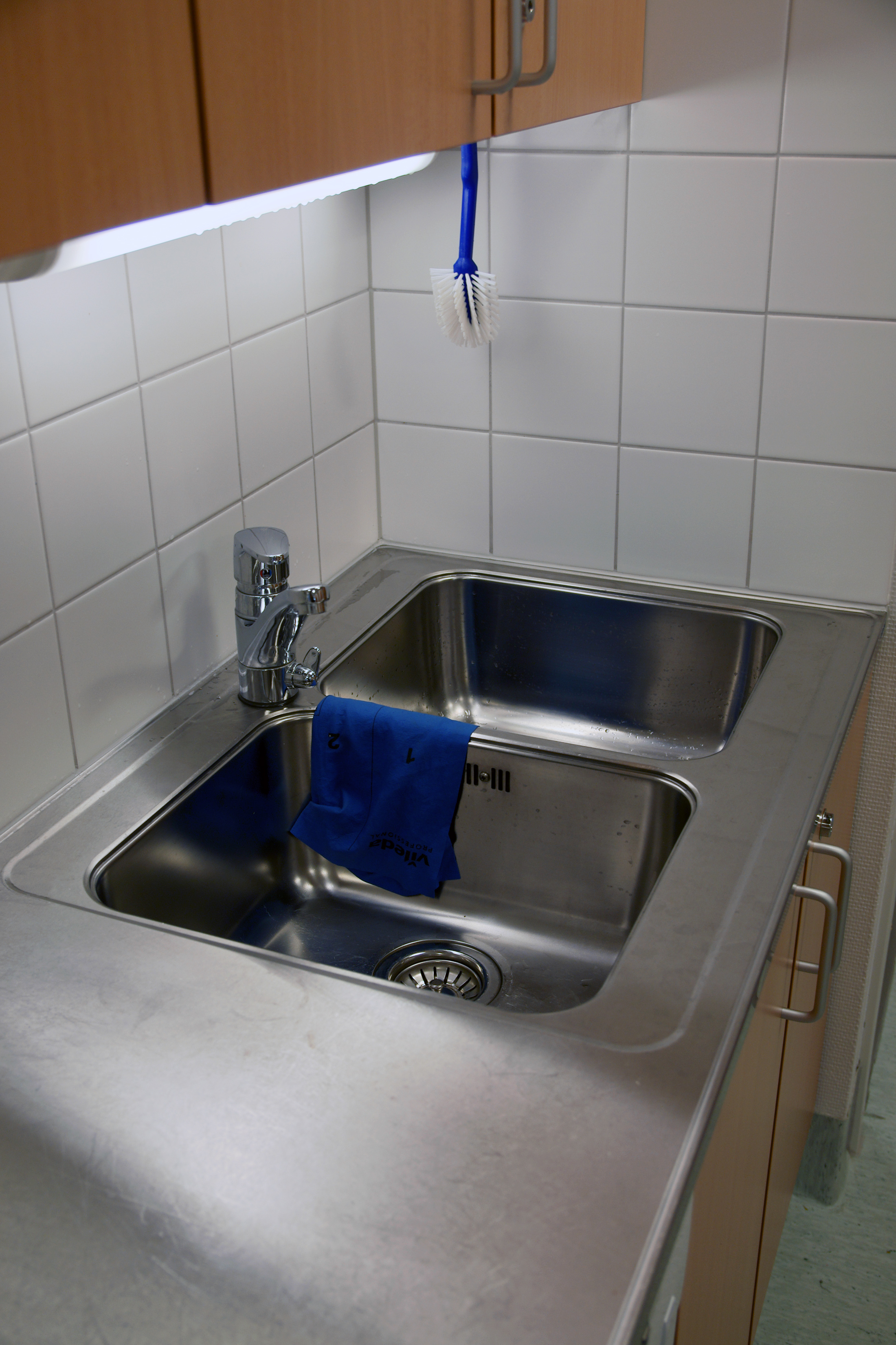 Kitchen sink.